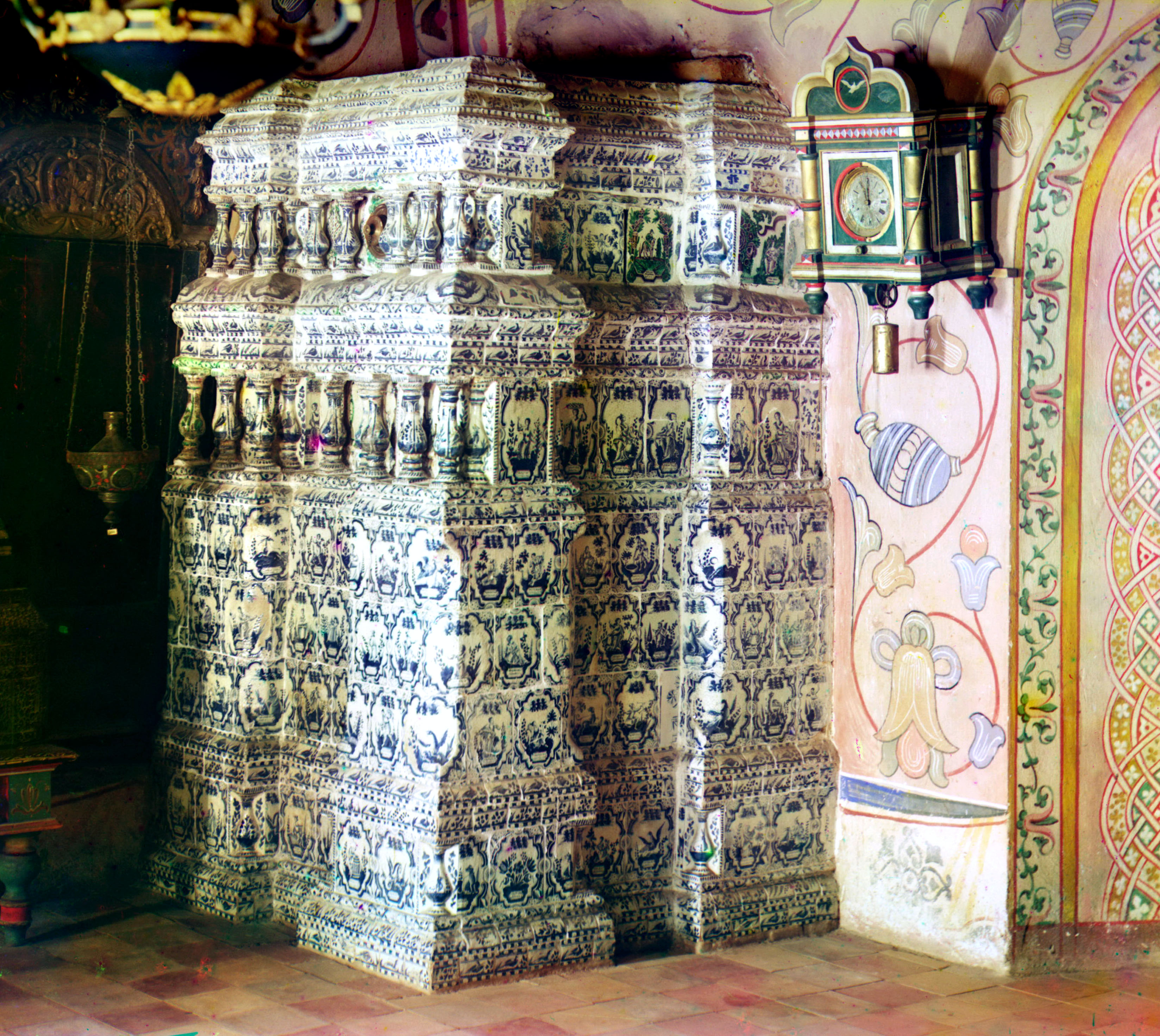 Tiled Porcelain Stove in the Prince's Palace. This photograph of the interior of the Prince's Palace shows a ceramic tile heating stove surrounded by brightly painted furnishings and walls with decorative frescoes. The palace was built in the fifteenth century in Rostov the Great, an old Russian town northeast of Moscow. Original Description: Tiled stove in the Kniazhii [Prince's] chamber. Rostov Velikii.